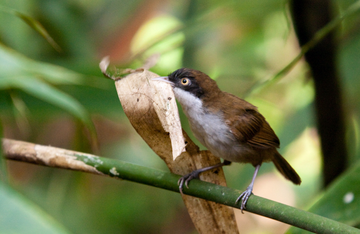 Dark-fronted Babbler photographed in Kanneliya nature reserve, Udugama, Sri Lanka